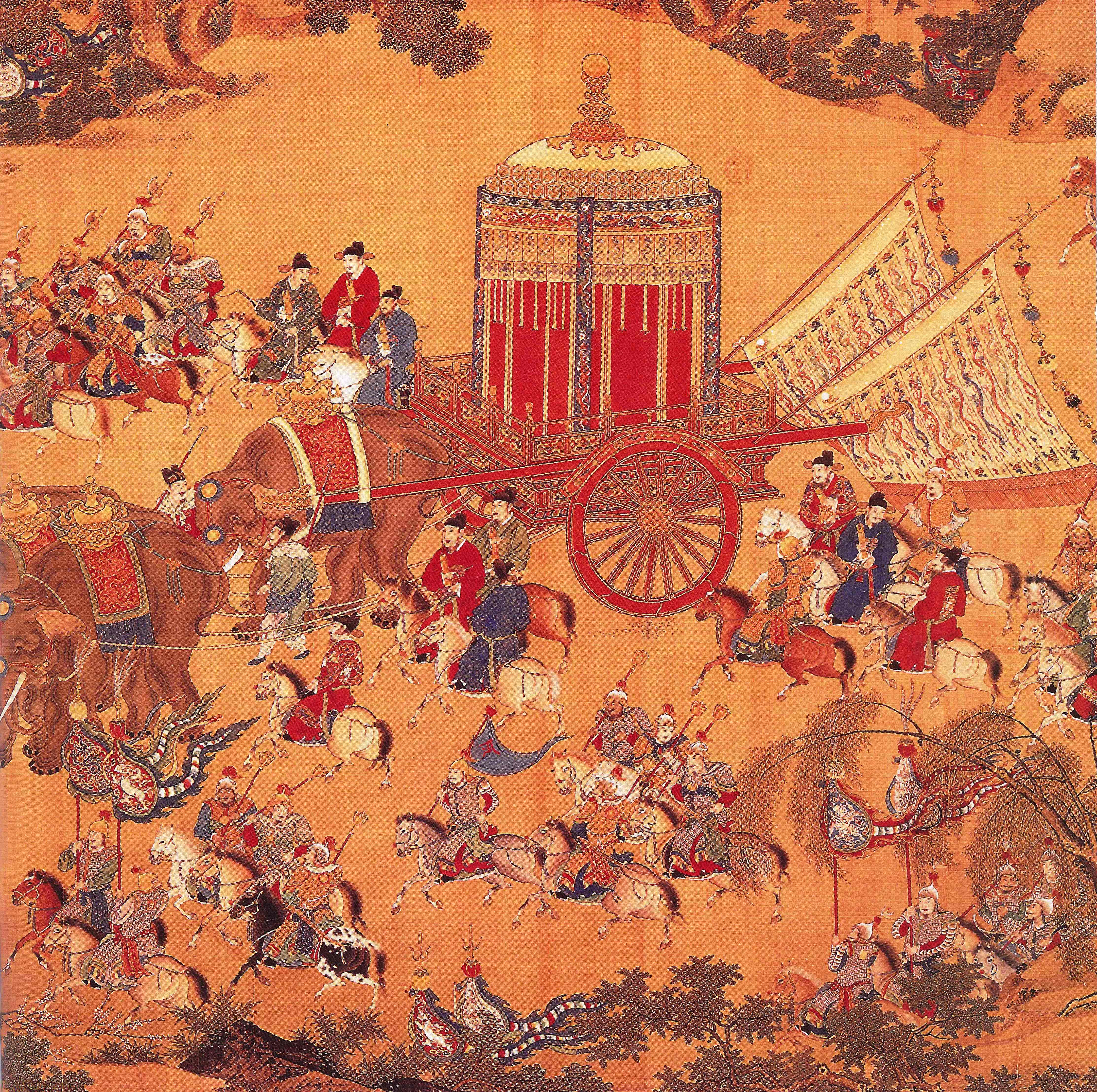 From Paludan's source: "Detail of a silk scroll, The Emperor's Approach, showing the luxury in which the emperor Xuande travelled. Elephants were kept in the imperial elephant stables until around 1900 and were often used for ceremonial occasions, such as the emperor's visits to the Temple of Heaven. Here, however, the large number of horsemen accompanying the emperor's carriage suggests that the emperor was on a much longer journey in the countryside."